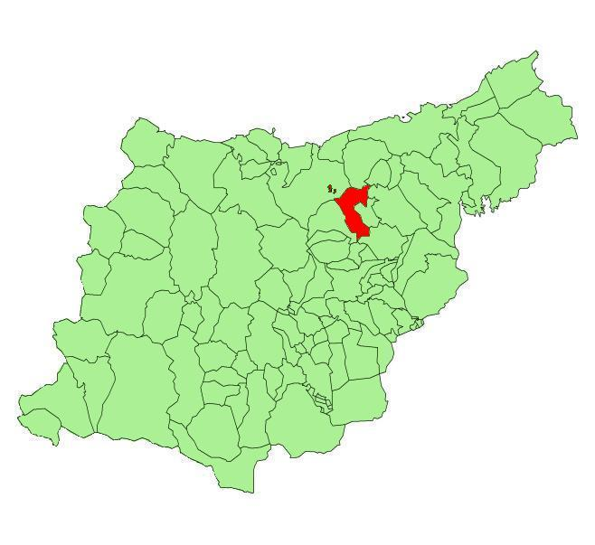 Zizurkil municipality in the province of Guipuzcoa.